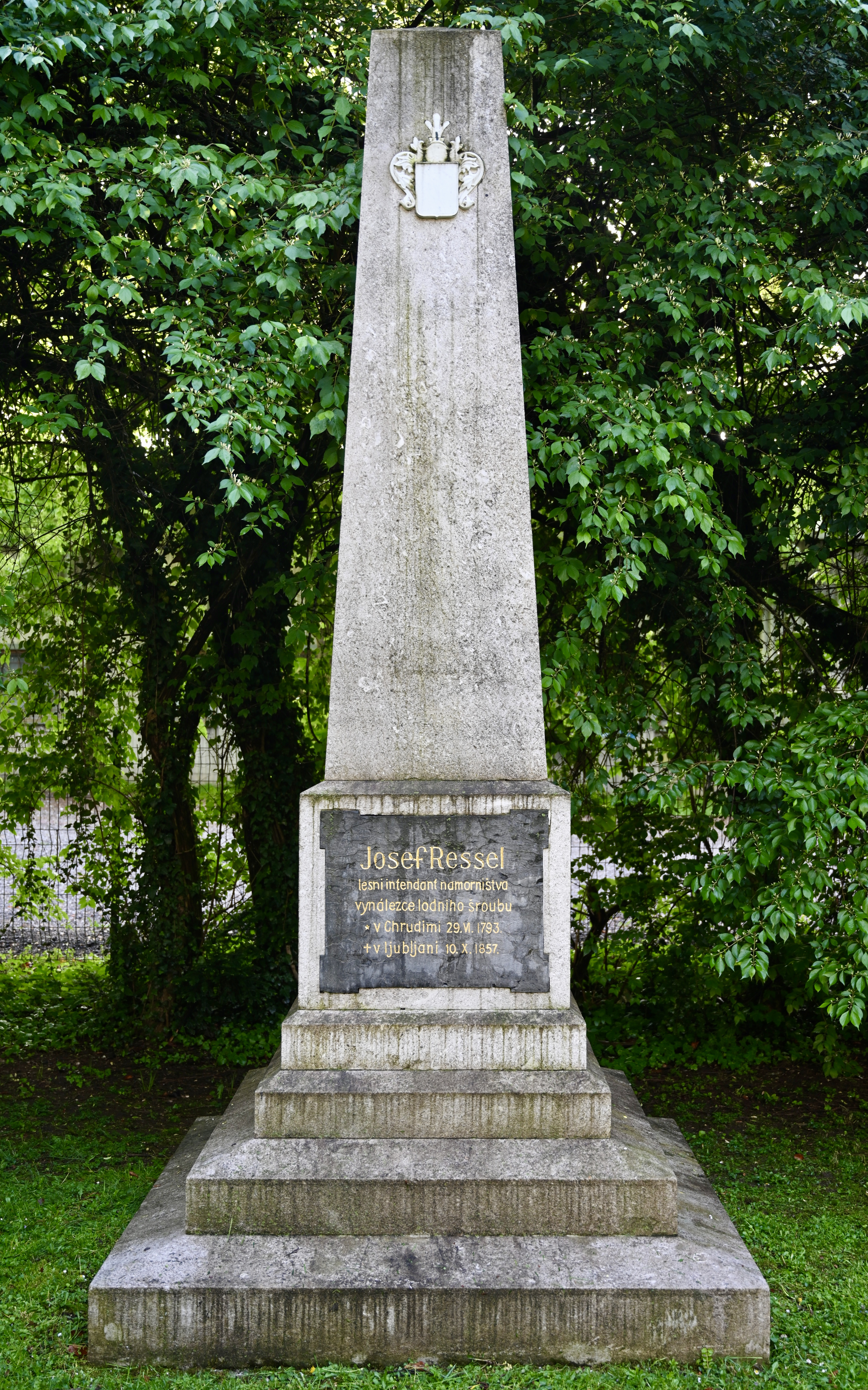 Gravestone of Josef Ressel at Navje memorial park in Ljubljana